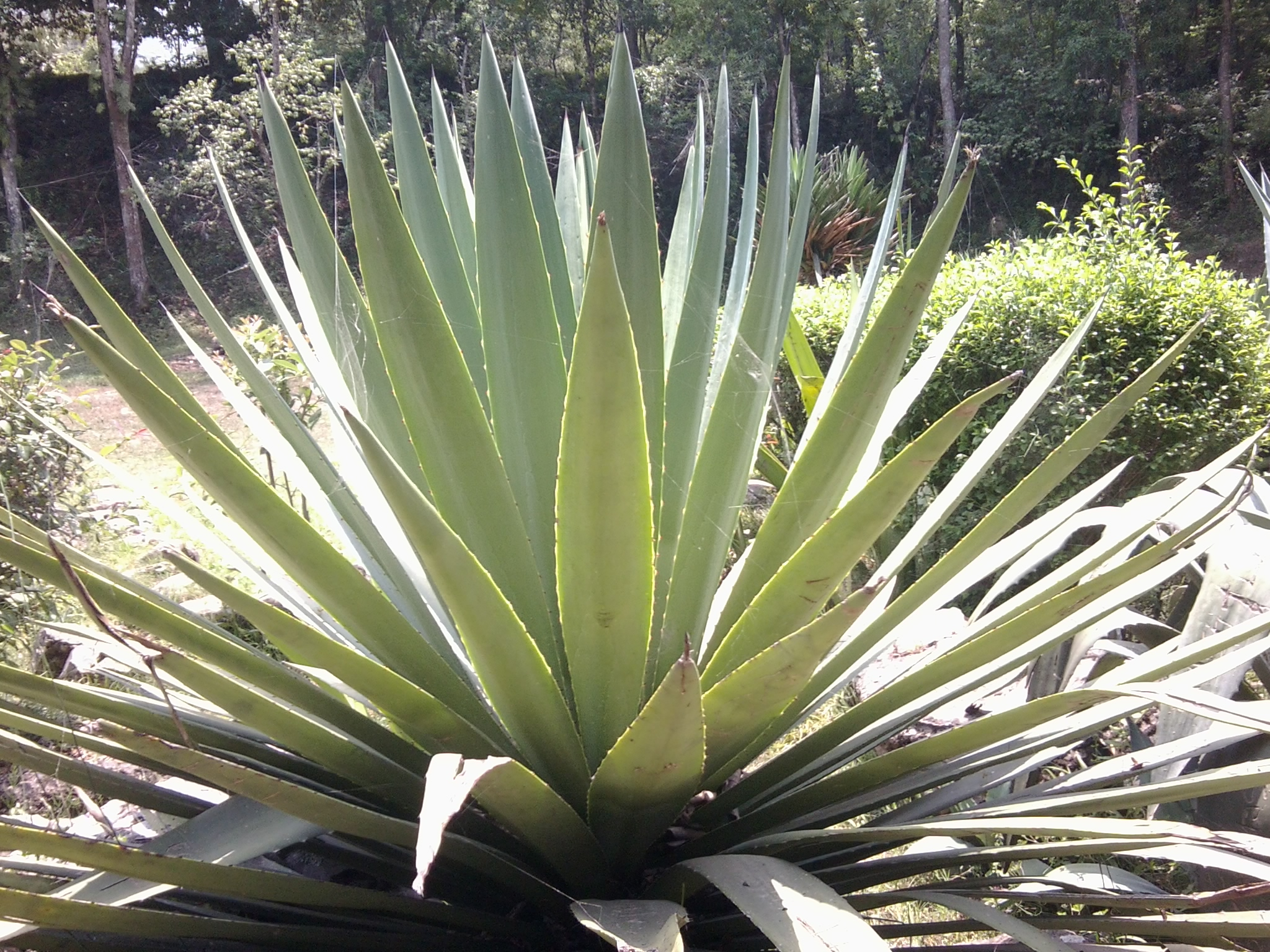 A perennial plant